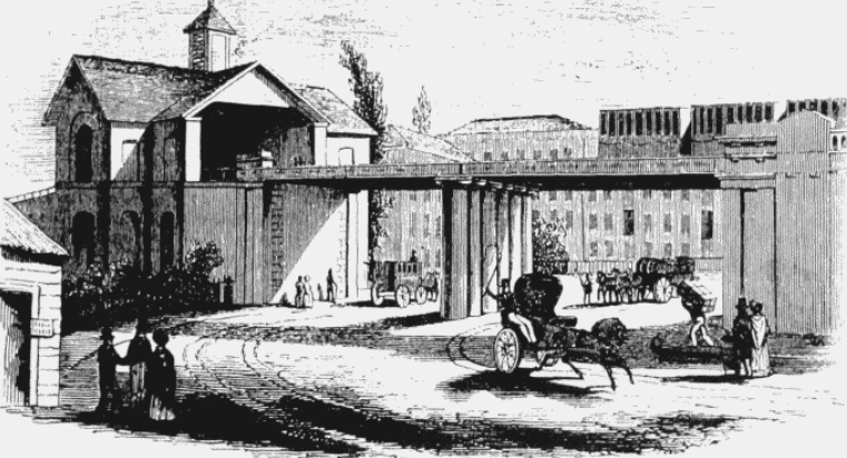 Railway on a viaduct over a road leading to a two storey railways station.